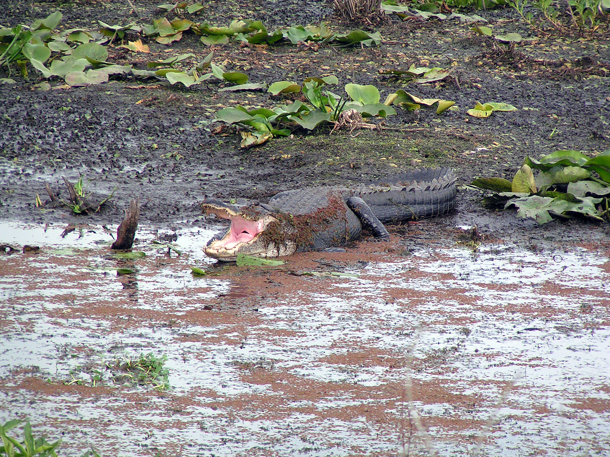 Jjcox1958 14:34, 3 April 2007 (UTC)